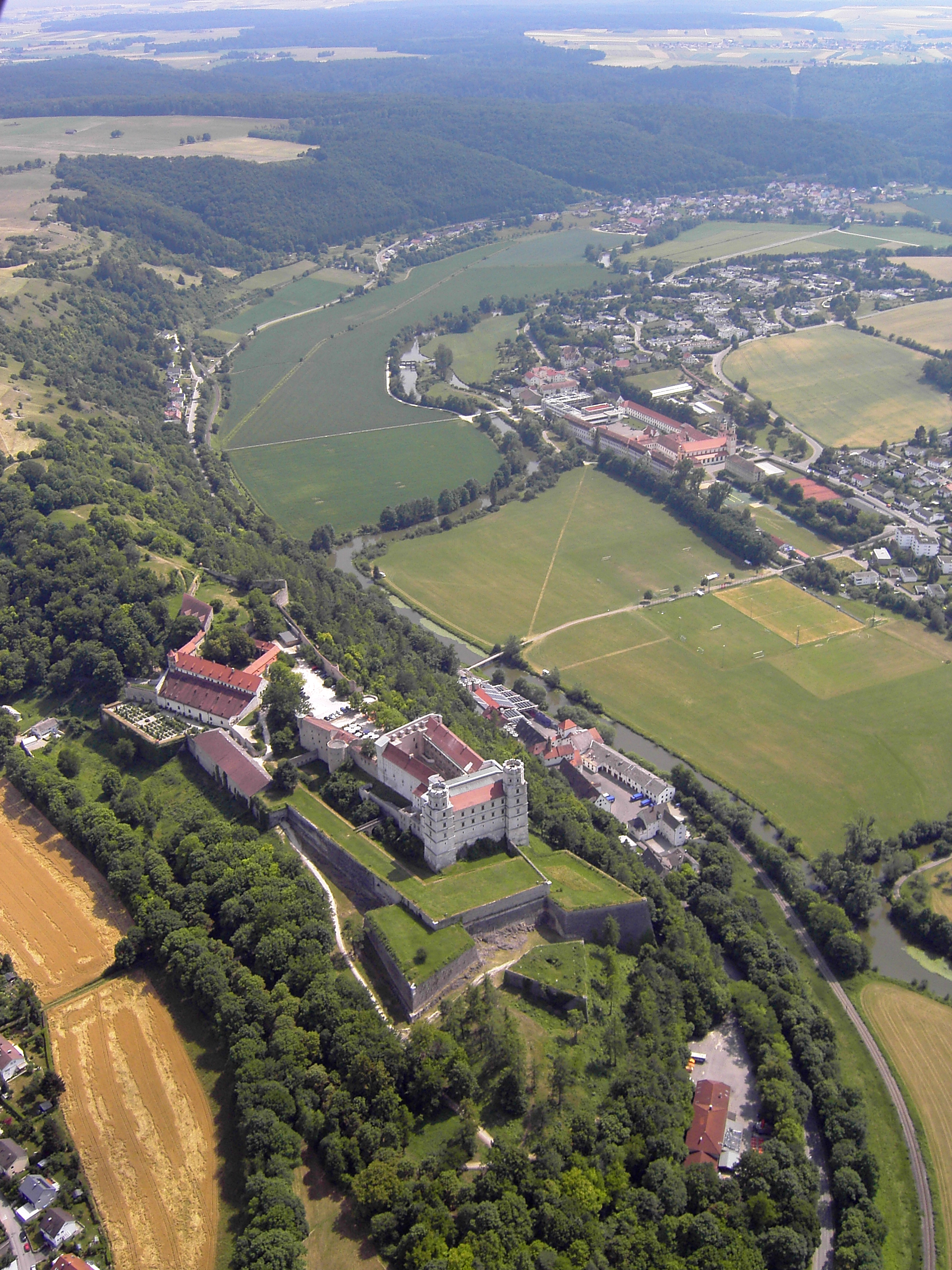 Aerial photograf of the Willibaldsburg